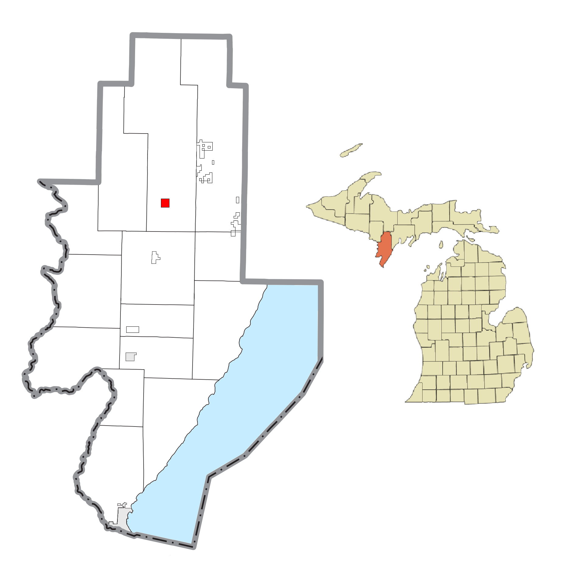 Powers, MI